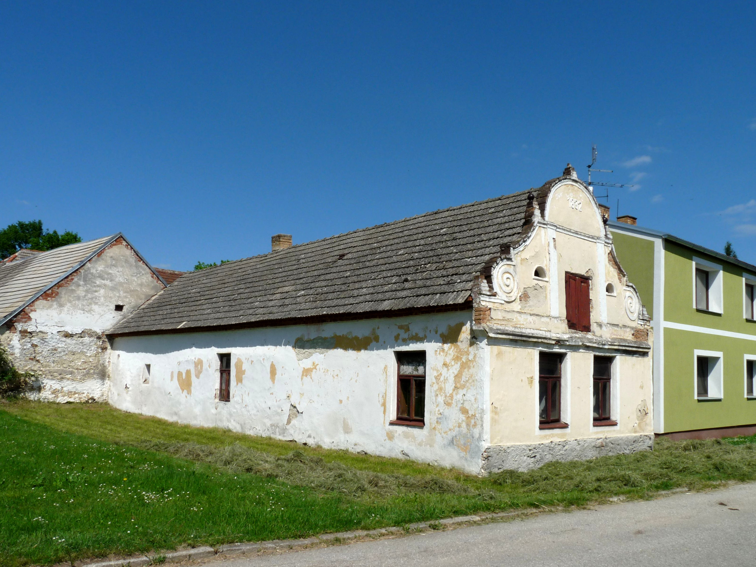 House No 6 in the village of Sedlec, České Budějovice District, South Bohemian Region, Czech Republic.